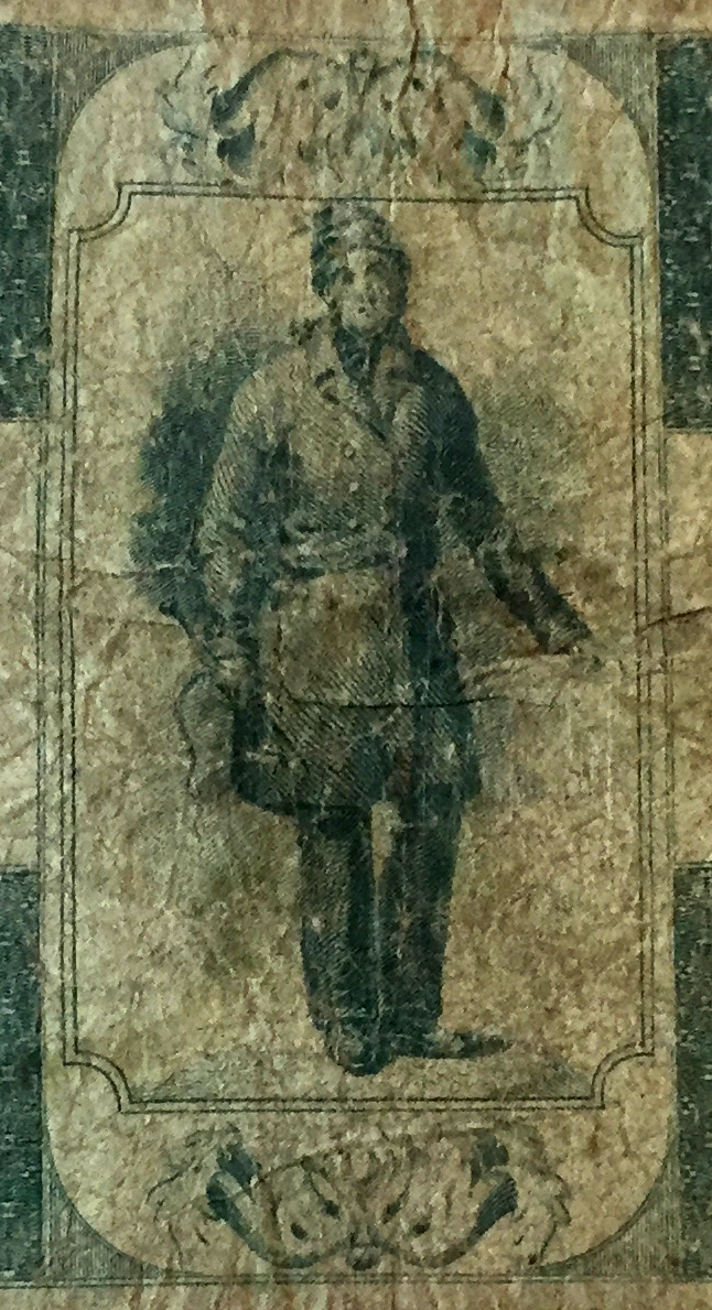 Detail of an image of an "habitant" on the back of a Banque Canadienne One Dollar bill from the early 19th century.